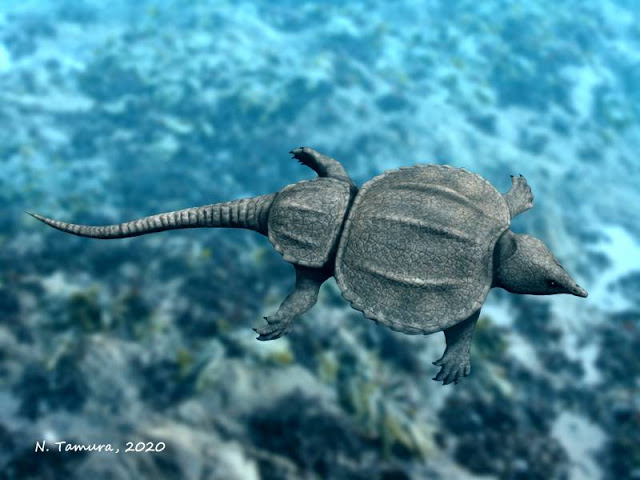 Psephoderma alpinum Meyer, 1858 Systematics: Sauropterygia Placodontia Placochelyidae Size: 1.8 m long Type Horizon and Locality: Late Triassic, Kössen Formation (Rhaetian) Bayern, Germany Type Specimen: BSP AS I 8, dermal shield Placodonts form a group of marine shell-eating reptiles related to plesiosaurs. They are characterized by their large flat teeth ideal for crushing the shells of mollusks and brachiopods. Some members of the group evolved to look superficially like sea turtle. Psephoderma had a two-piece carapace and fossils of this animal have been found in the Latest Triassic rocks of Germany, Switzerland, Austria, Italy and England. Two species have been described: P. alpinum and P. anglicum. February 29, 2020 References: Neenan, J. M., & Scheyer, T. M. (2014). New specimen of Psephoderma alpinum (Sauropterygia, Placodontia) from the Late Triassic of Schesaplana Mountain, Graubünden, Switzerland. Swiss Journal of Geosciences, 107(2-3), 349-357. All illustrations on this site are copyrighted to Nobu Tamura. The low resolution versions of the images are licensed under Creative Commons Attribution- ShareAlike (CC BY-SA) license meaning that you are free to use them as long as you properly credit the author (© N. Tamura). High resolution versions are available upon request. Questions: contact me at nobu dot tamura at yahoo dot com.